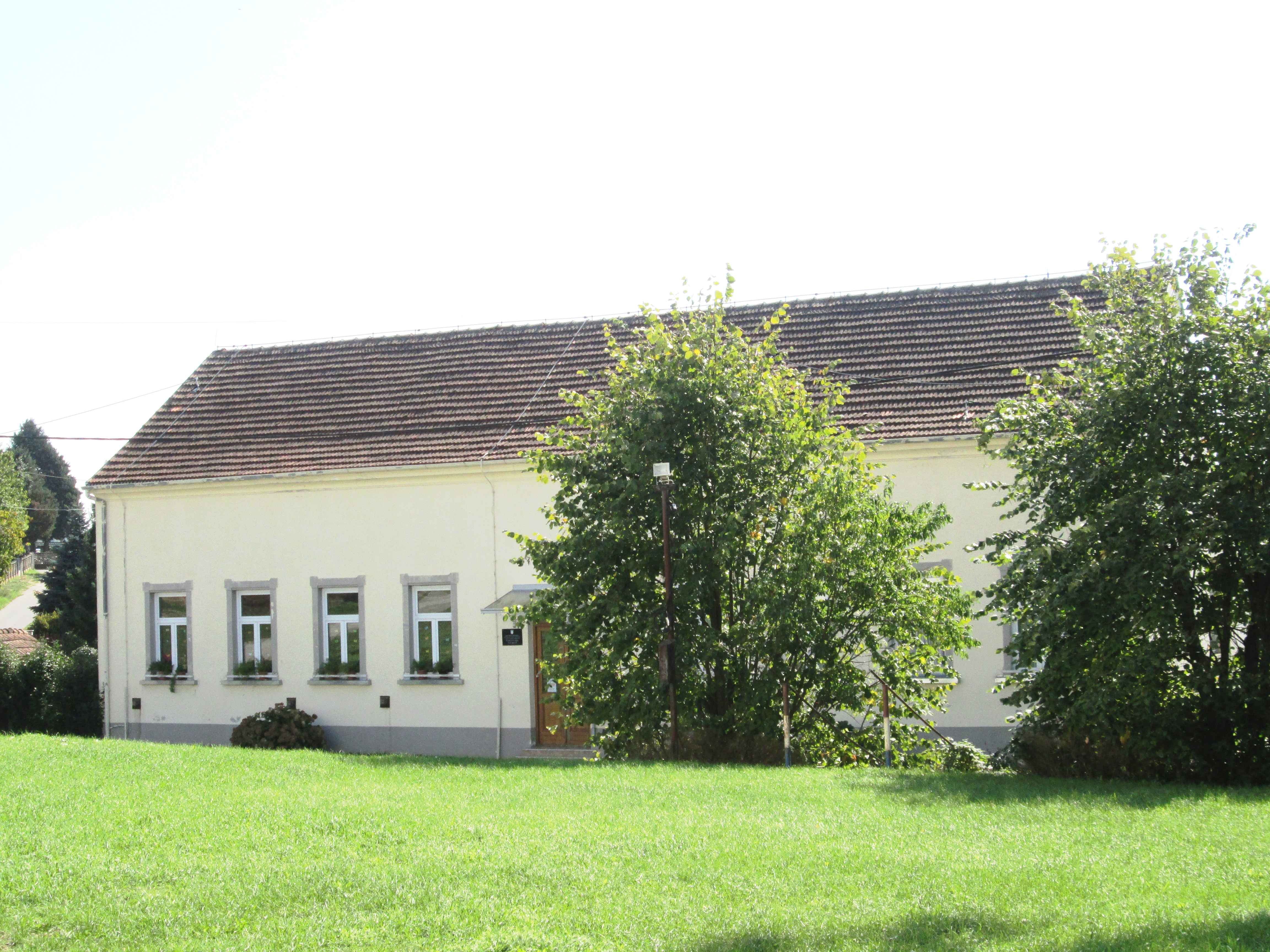 Elementary school in Tomas, Croatia.